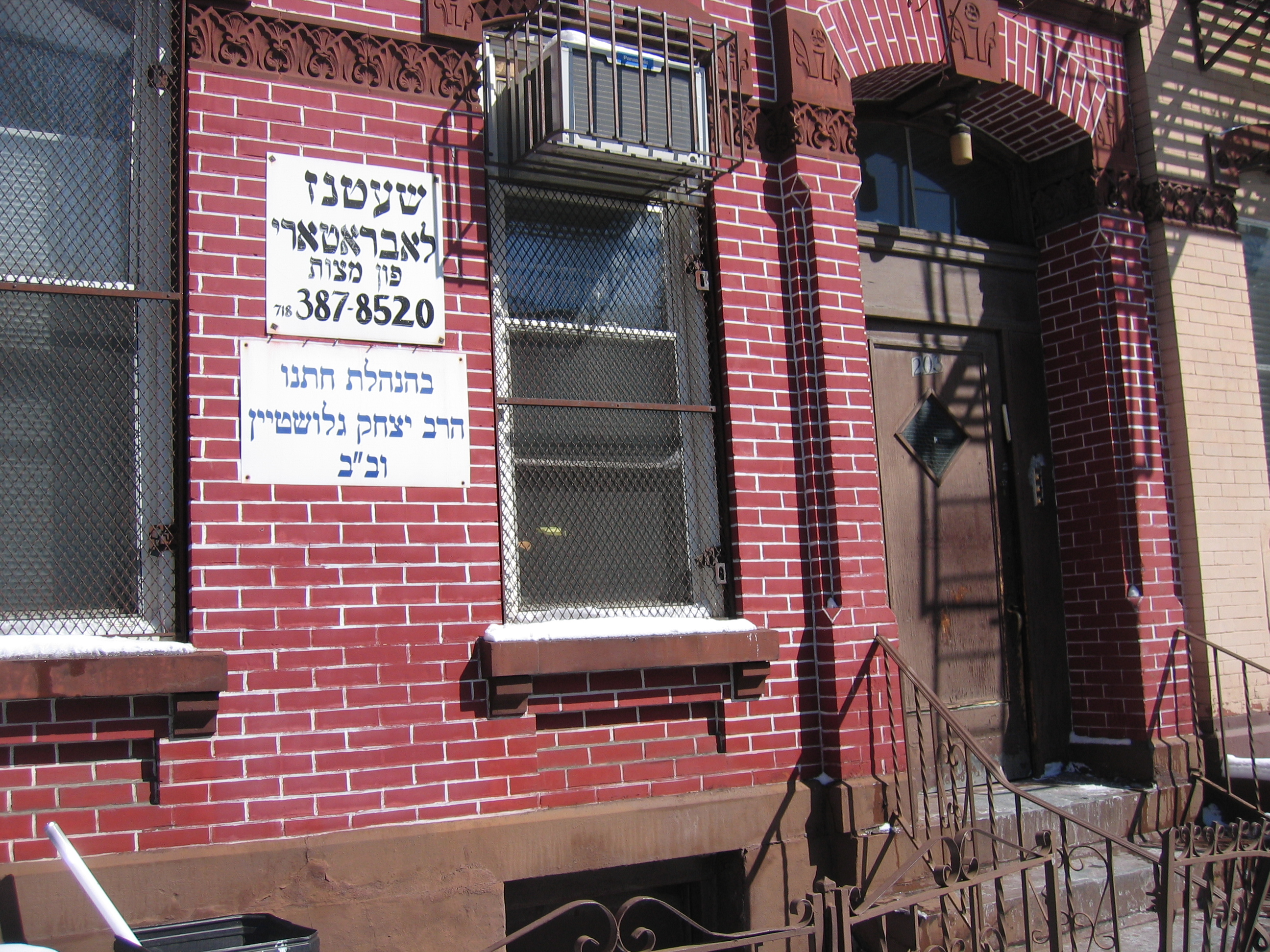 Photograph of the Williamsburg Shatnes lab